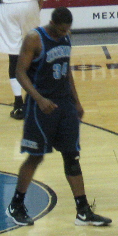 C. J. Miles